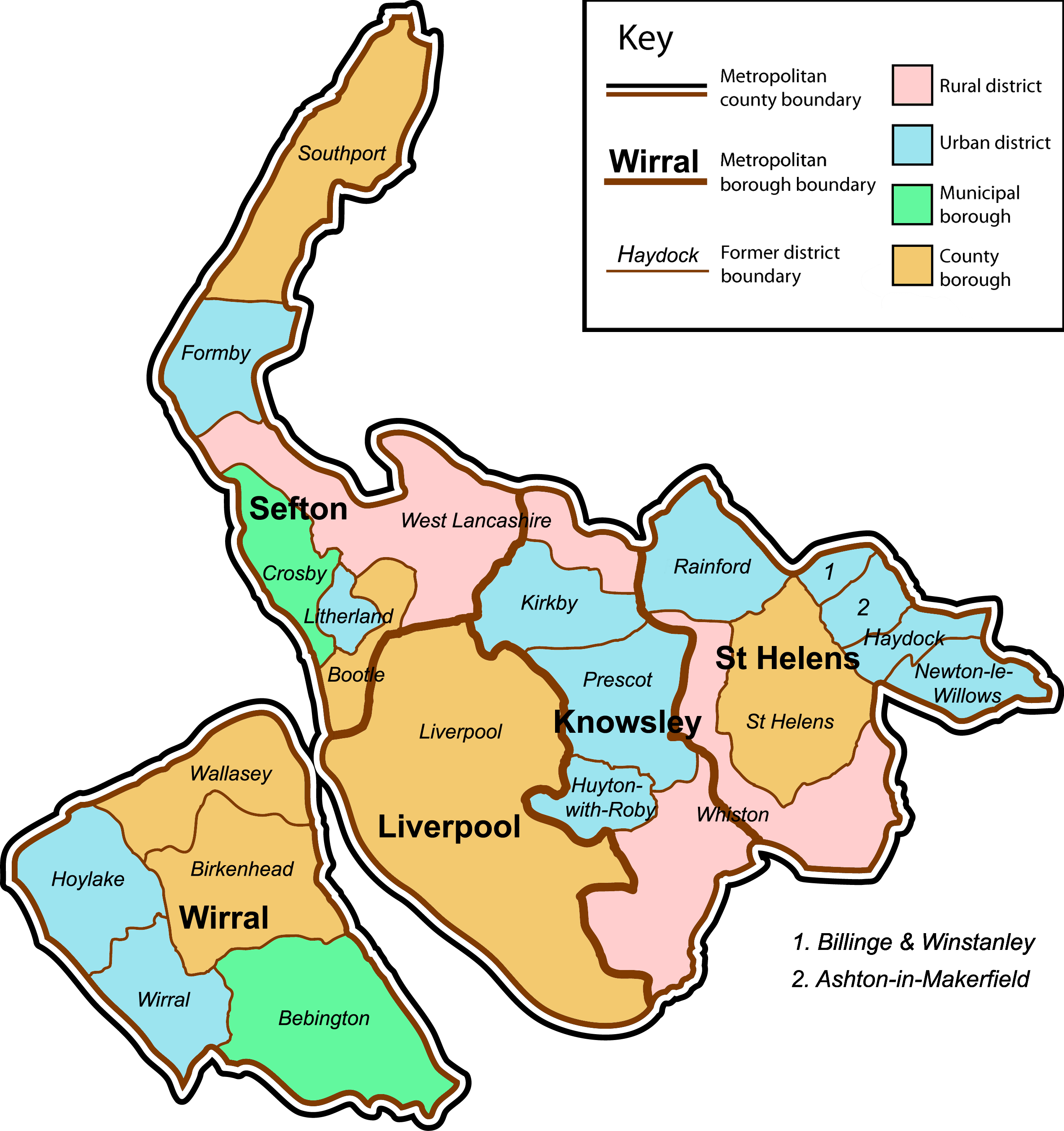 A map of the metropolitan county of Merseyside, in North West England, showing modern and former boundaries. See Key for explanation of colours.